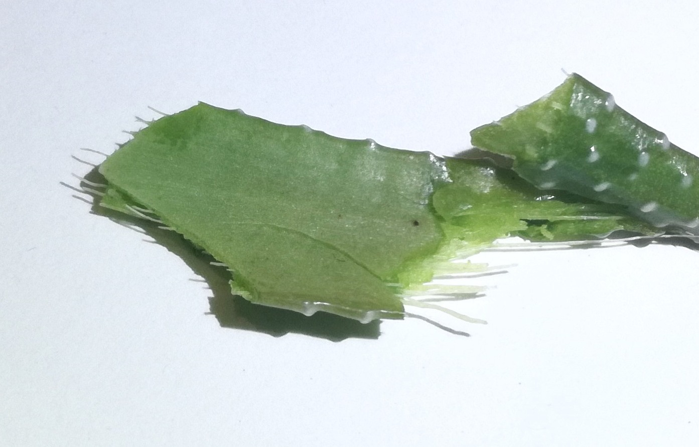 Haworthia fasciata - leaf snapped in half to show the distinctive fibres (fasciated) of the leaves